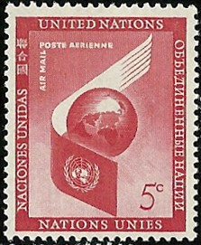 United Nations postage stamp